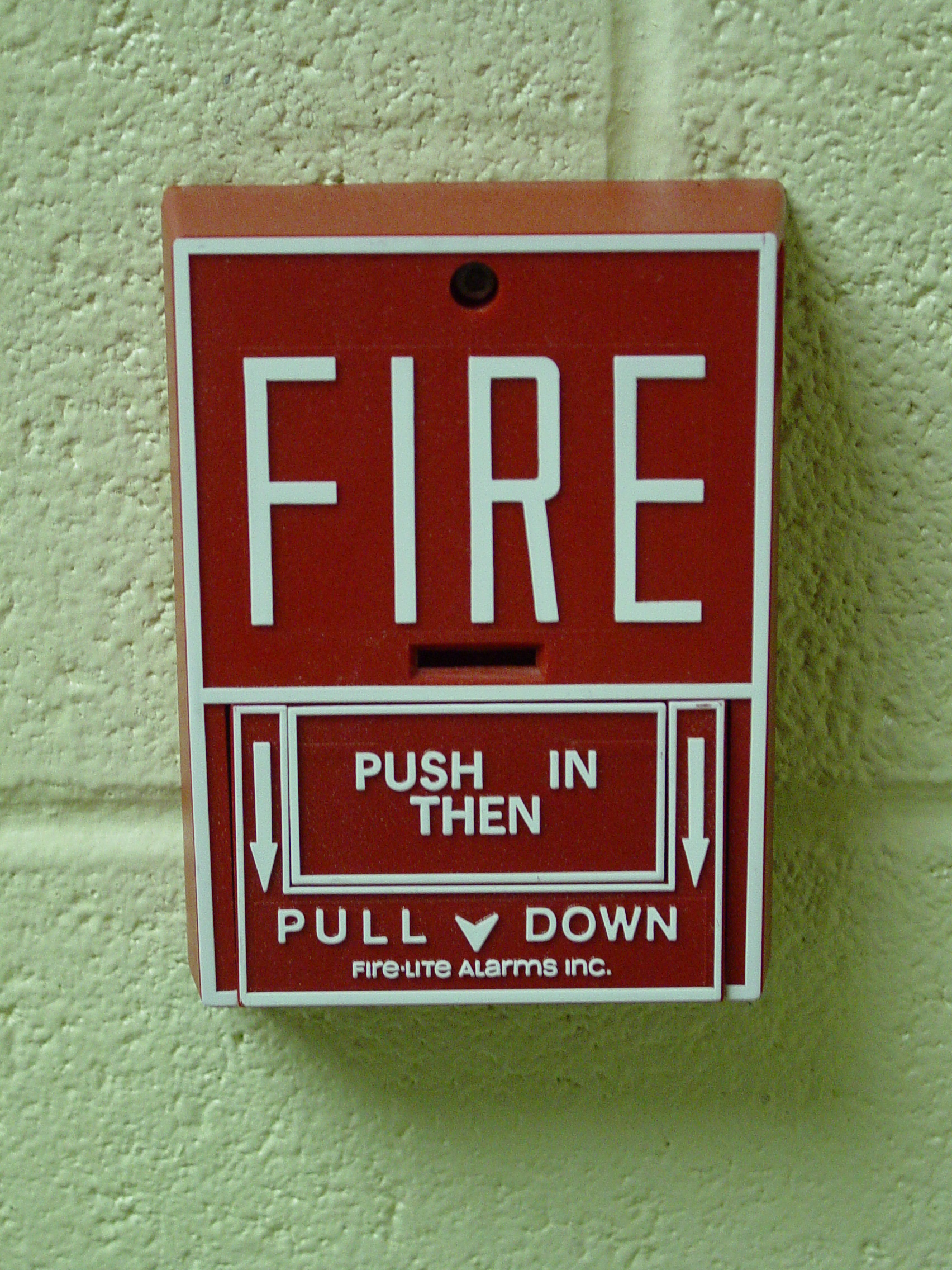 A Fire-Lite BG-10 pull station in Roop Hall at James Madison University.